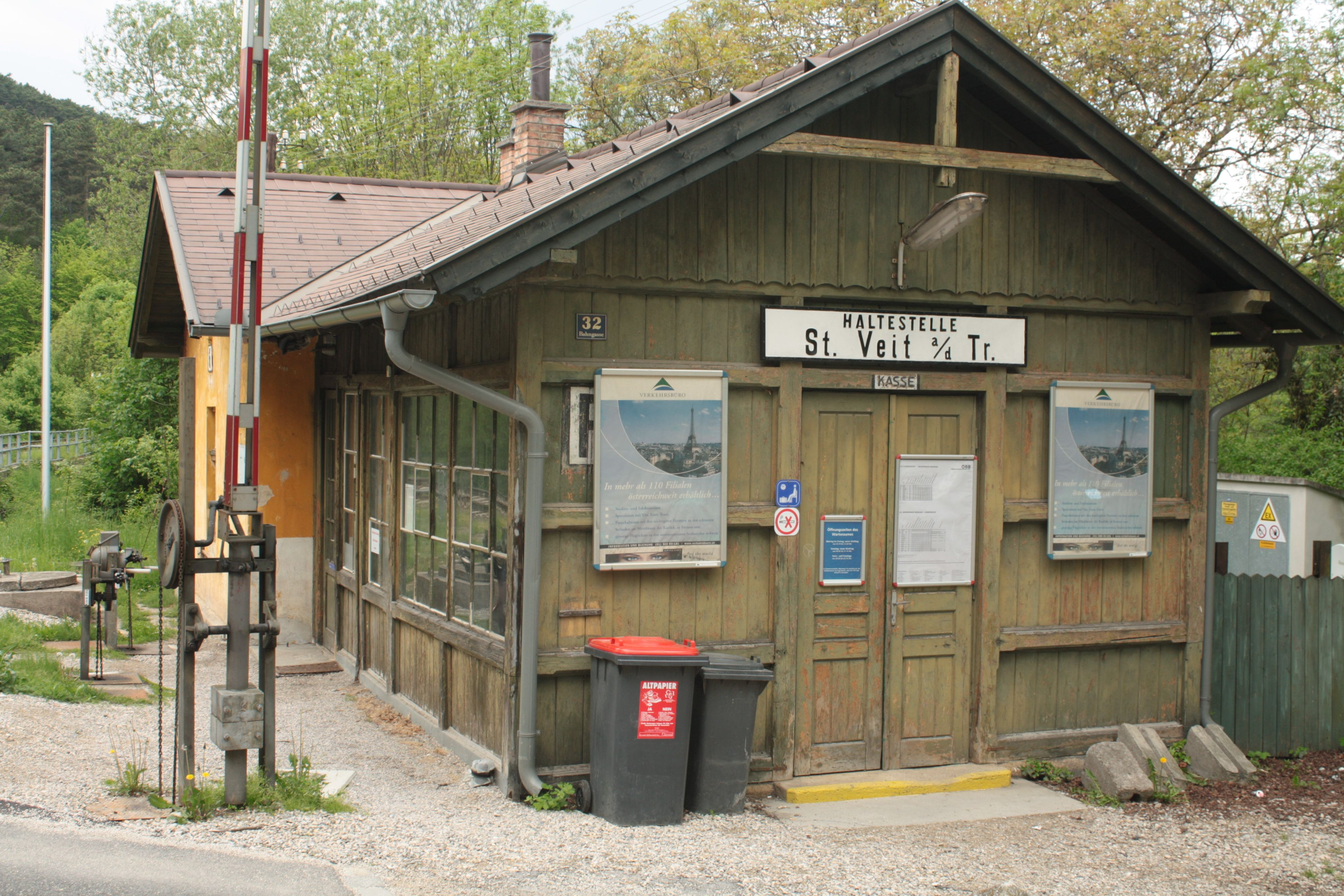 train station St. Veit an der Triesting in Lower Austria